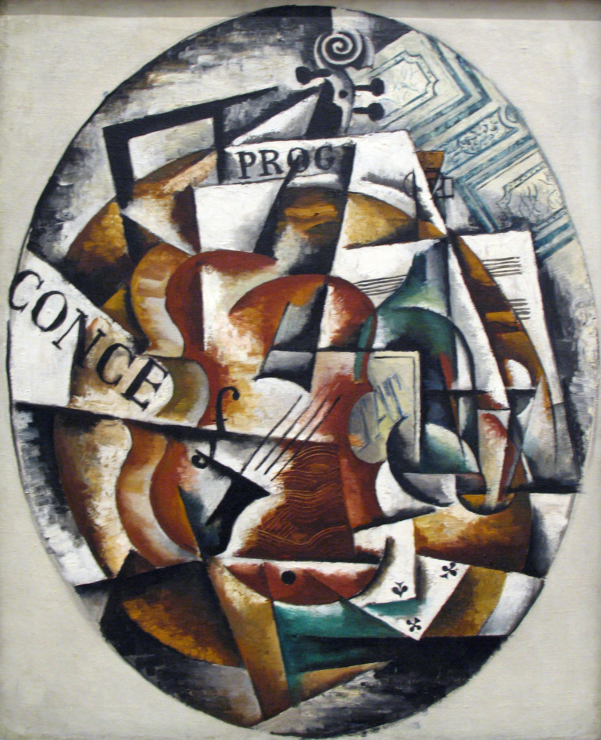 The violin